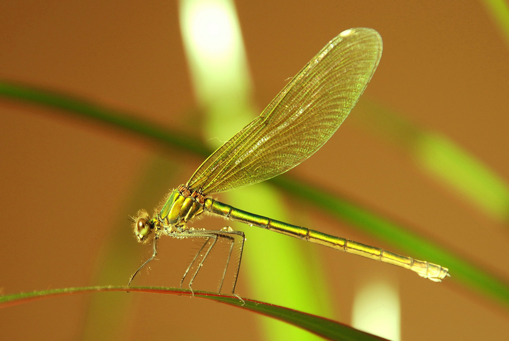 A dragonfly is a type of insect belonging to the order Odonata, the suborder Epiprocta or, in the strict sense, the infraorder Anisoptera. It is characterized by large multifaceted eyes, two pairs of strong transparent wings, and an elongated body. Dragonflies are similar to damselflies, but the adults can be differentiated by the fact that the wings of most dragonflies are held away from, and perpendicular to, the body when at rest. Dragonflies are also the fastest flying insect.